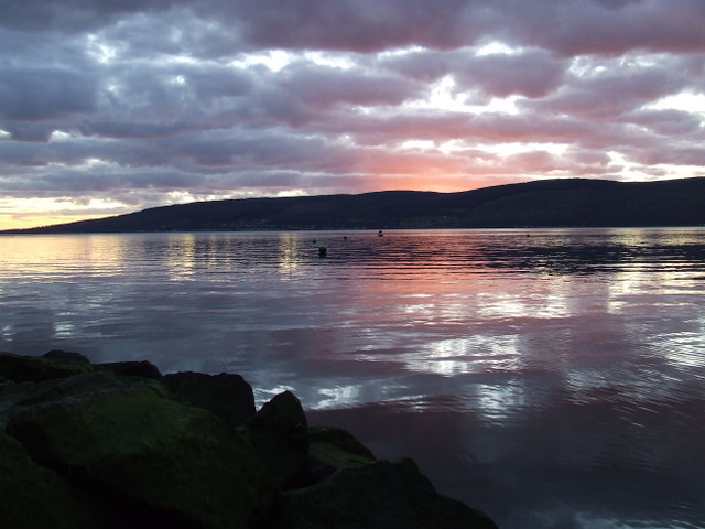 Clyde sunset Looking towards Innellan and Toward Point from Kip Marina.